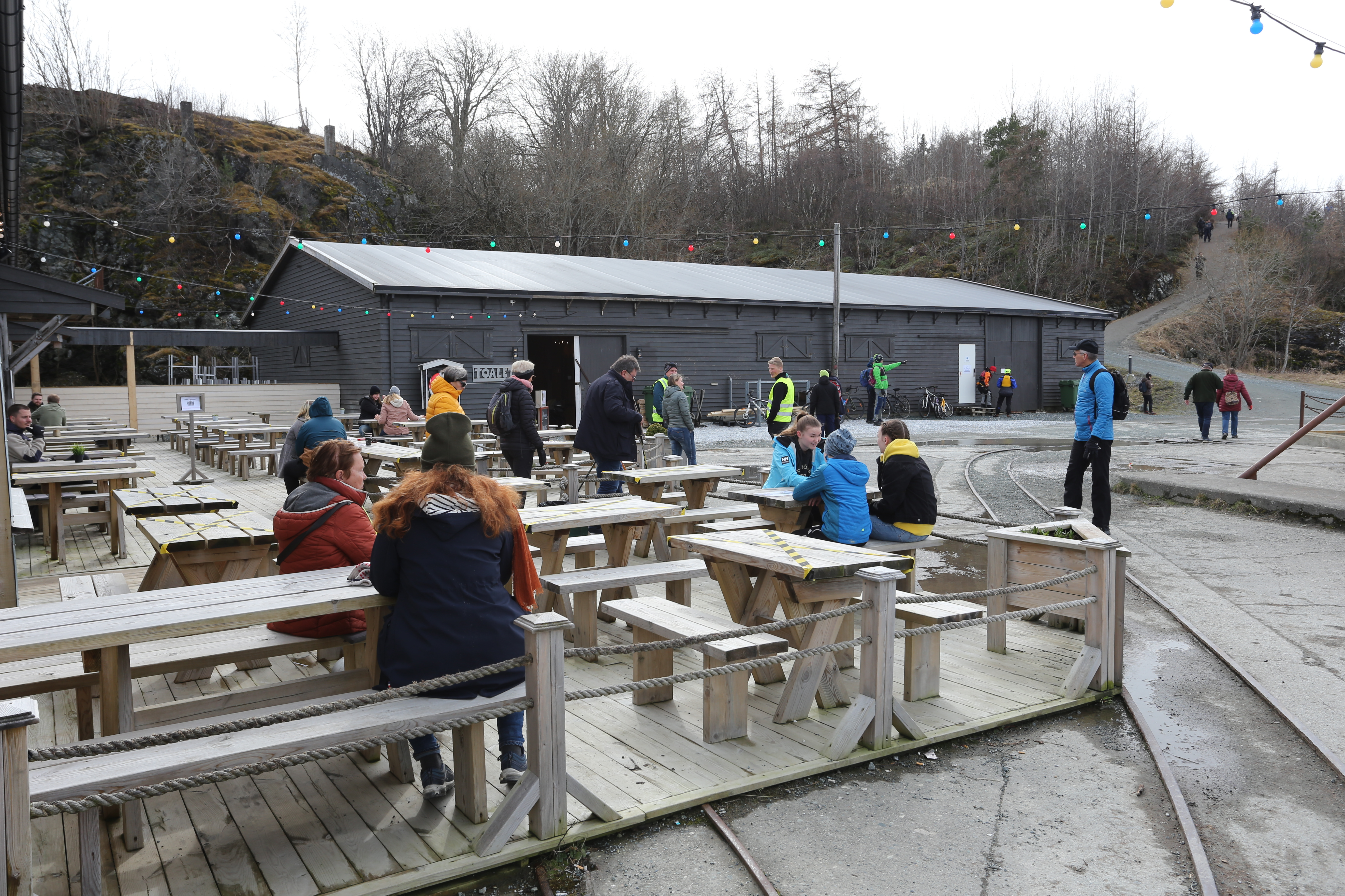 Restaurant 'Ladekaia' in Trondheim uses security and taped-off tables to enforce distance between patrons.